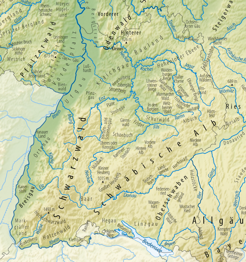 Map of the landscapes of Baden-Württemberg